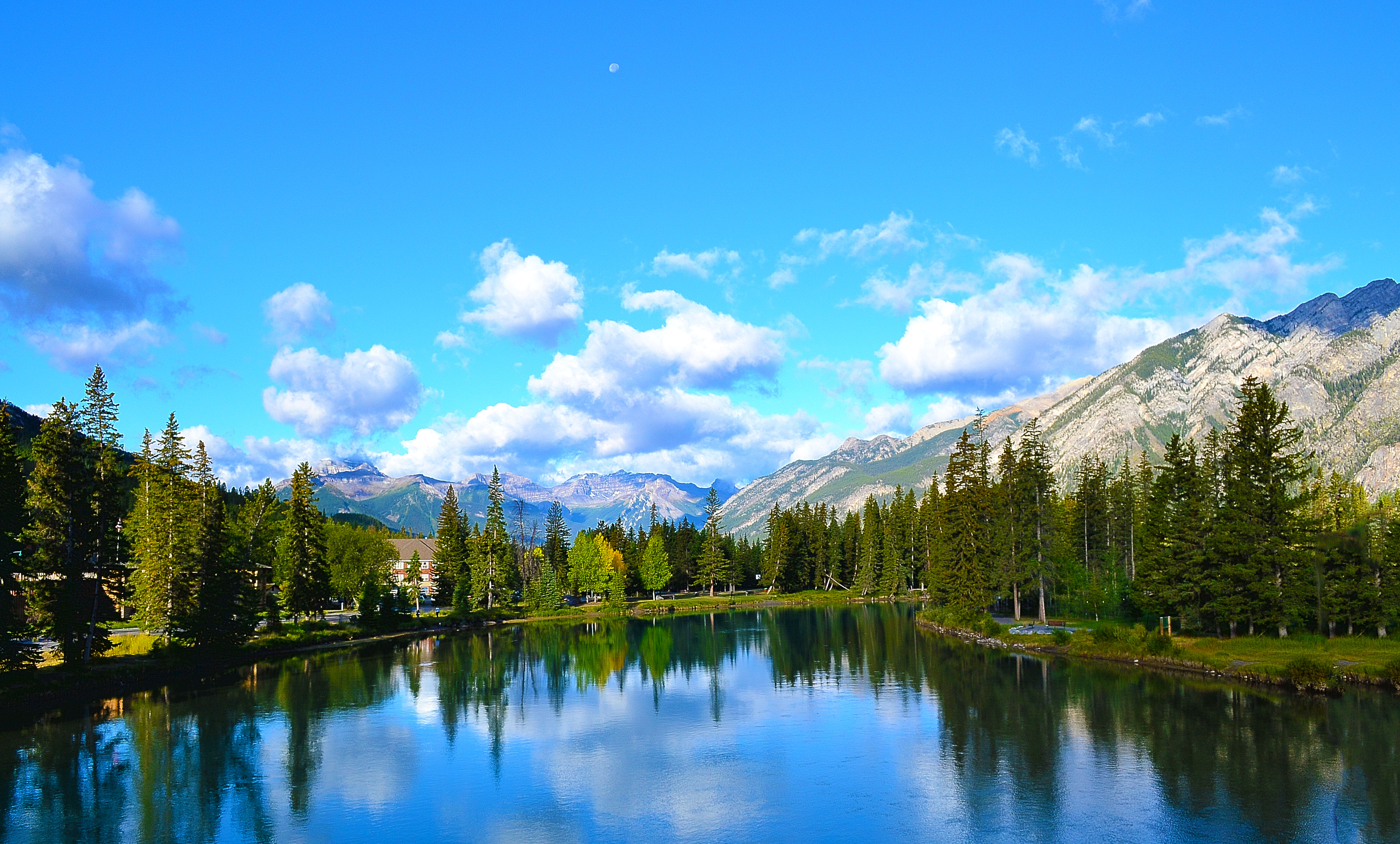 Summers in Banff (Canada)